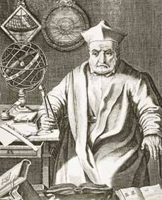 Christopher Clavius (1538–1612), German mathematician and astronomer.